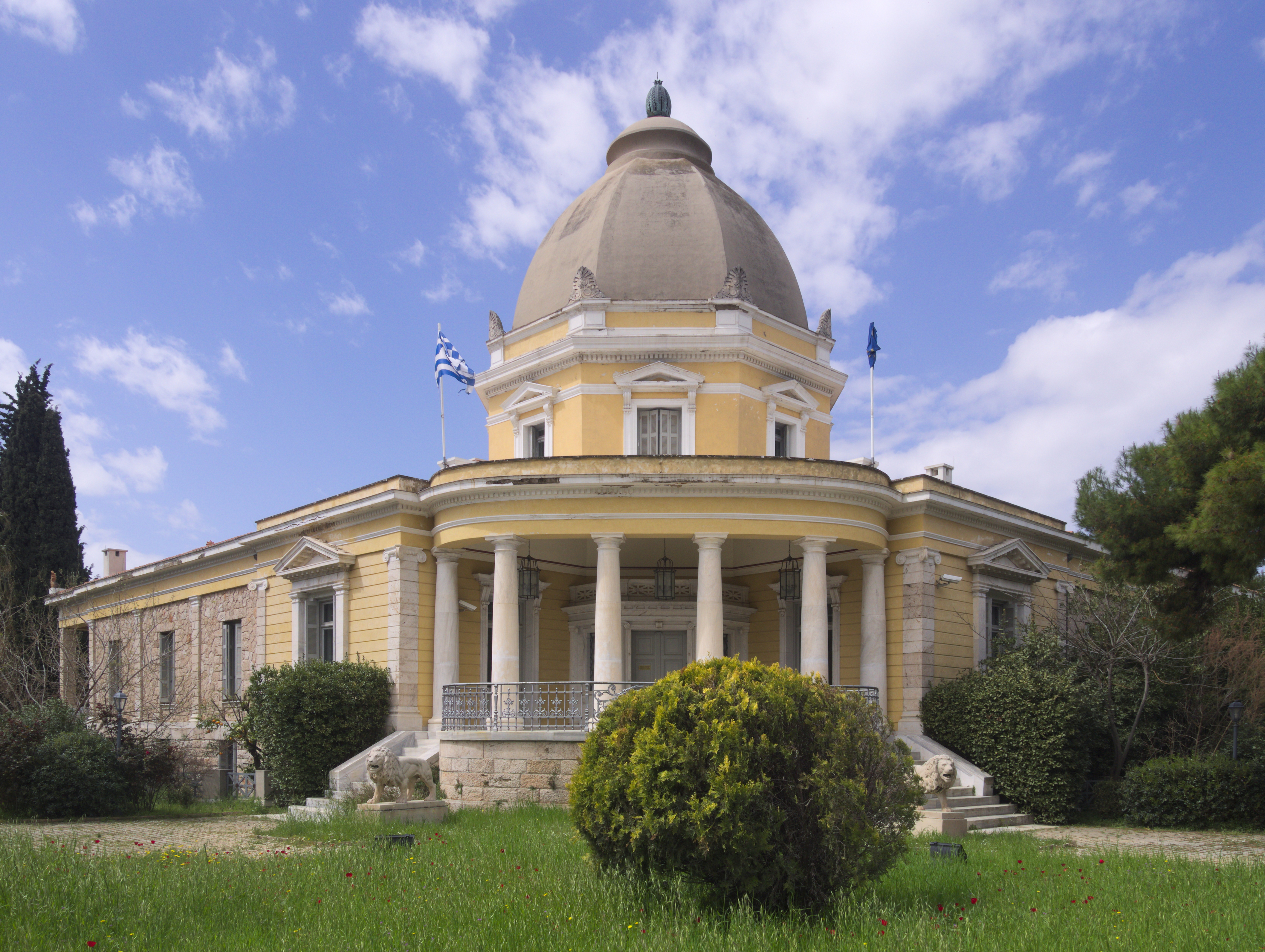 Kazoulis mansion, built in 1902-1910 at the south entrance of Kifissia. Nowadays it houses the National Centre for the Environment and Sustainable Development.